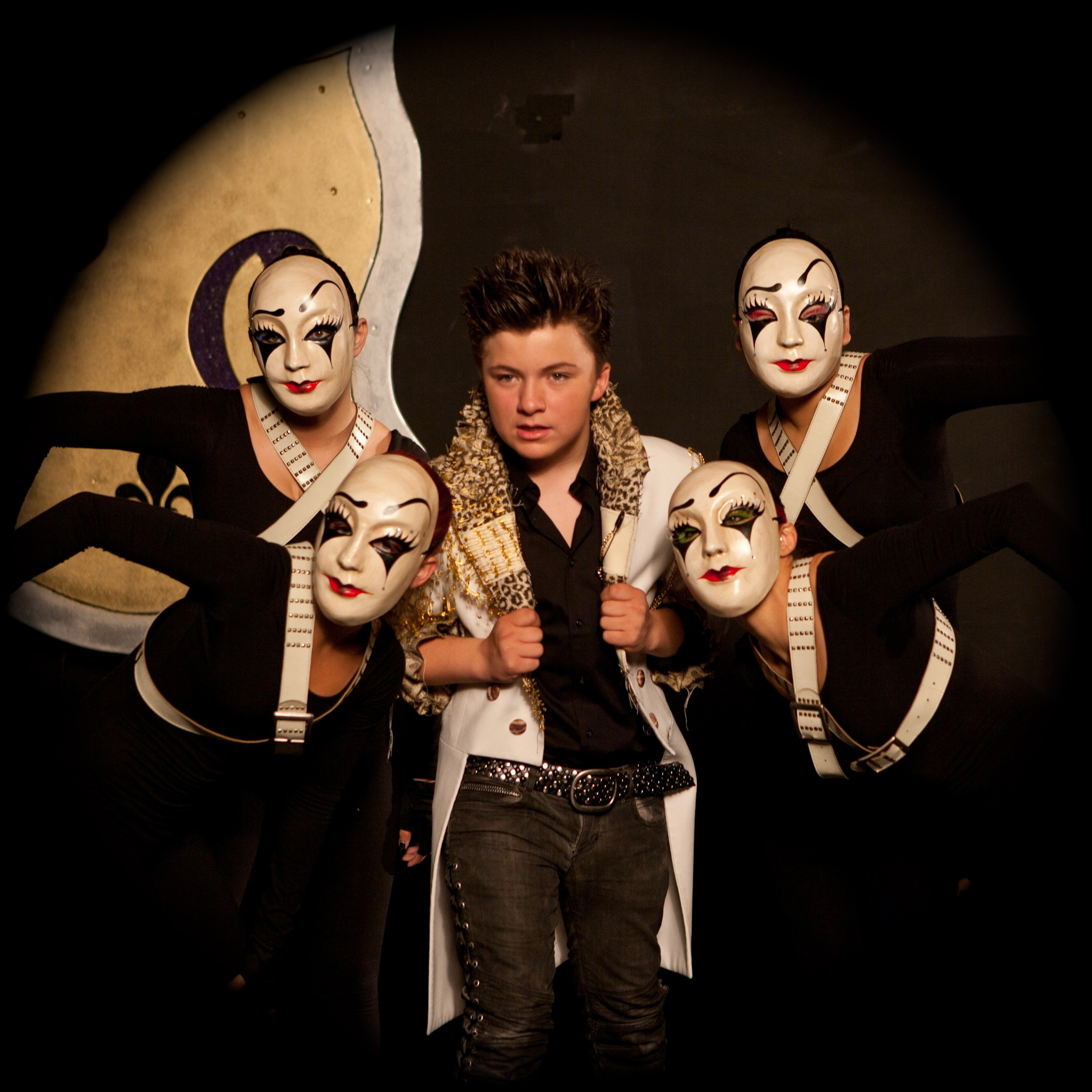 Joseph Castanon AKA Sir Castanon